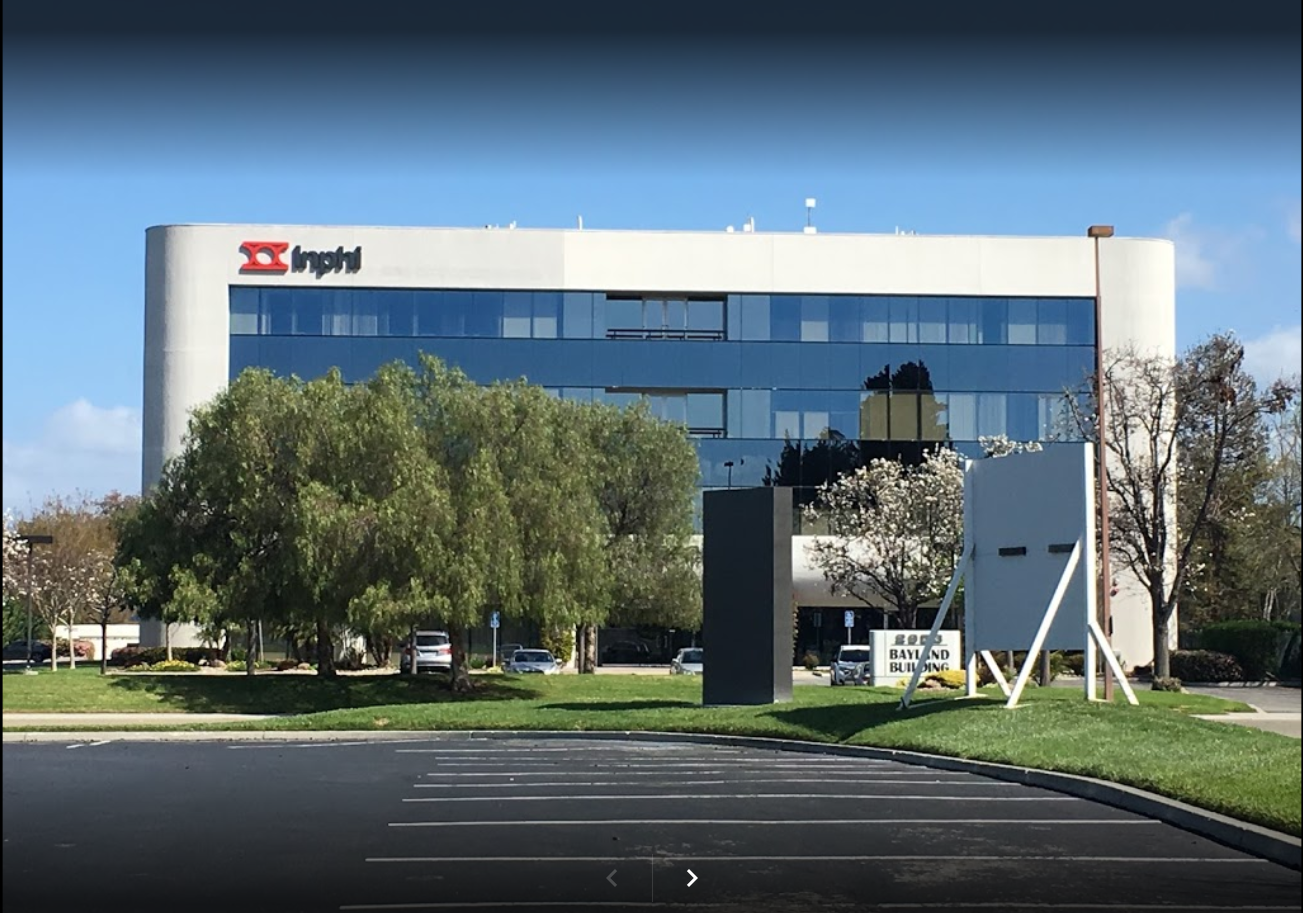 Inphi Corporation Head Quarters Picture